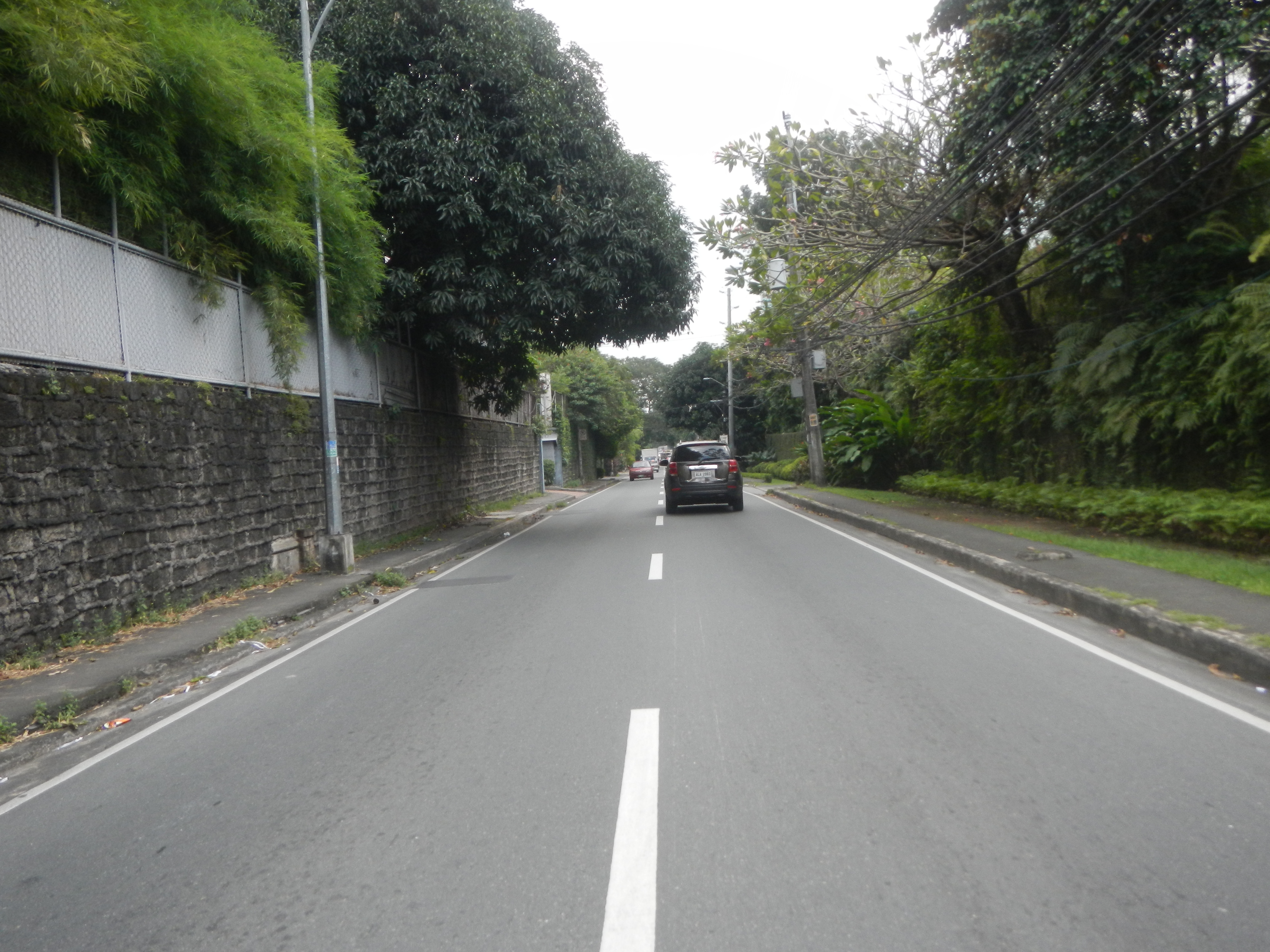 Balete Drive (E. Rodriguez, Sr. Avenue - Bouganvilla Street), Mariana, New Manila, Quezon City in front of Balete Drive Extension Balete Drive Haunted highway List of haunted locations in the Philippines Major roads in Metro Manila in the List of barangays of Metro Manila Legislative districts of Quezon City Districts 3, Barangays of Quezon City, Barangay Kristong Hari 14°37'28"N 121°1'31"E beside Mariana 14°37'1"N 121°2'13"E New Manila, Quezon City upon the List of rivers and estuaries in Metro Manila Diliman Creek from San Juan River (Metro Manila) Estuaries in Cubao, Quezon City along Aurora Boulevard (Note: Judge Florentino Floro, the owner, to repeat, Donor Florentino Floro of all these photos hereby donate gratuitously, freely and unconditionally all these photos to and for Wikimedia Commons, exclusively, for public use of the public domain, and again without any condition whatsoever).